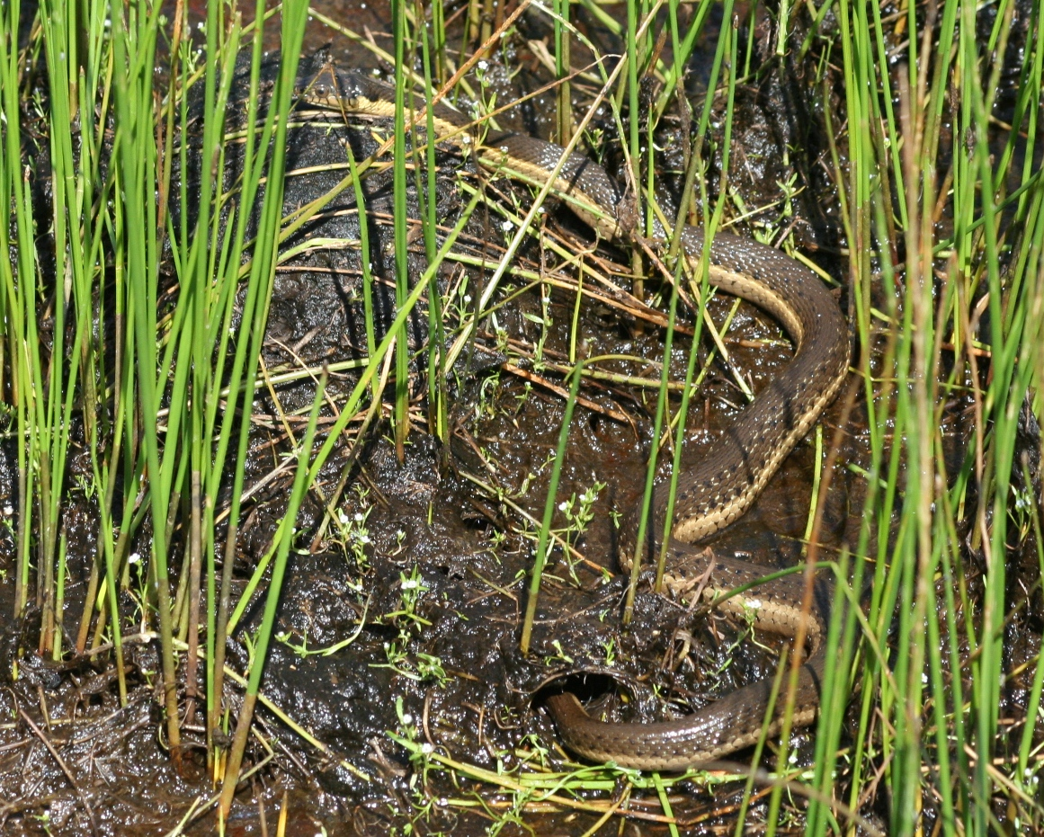 The two striped garter snake (thamnophis hammondii) is a medium sized snake measuring between 24-40 inches in length. It is commonly found near water, including vernal pools. This photo was taken at the Santa Rosa Plateau Ecological Reserve, Riverside County, California. Photo Credit: Jane Hendron/USFWS